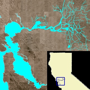 San Francisco Bay and Sacramento Delta regions © 2004 Matthew Trump